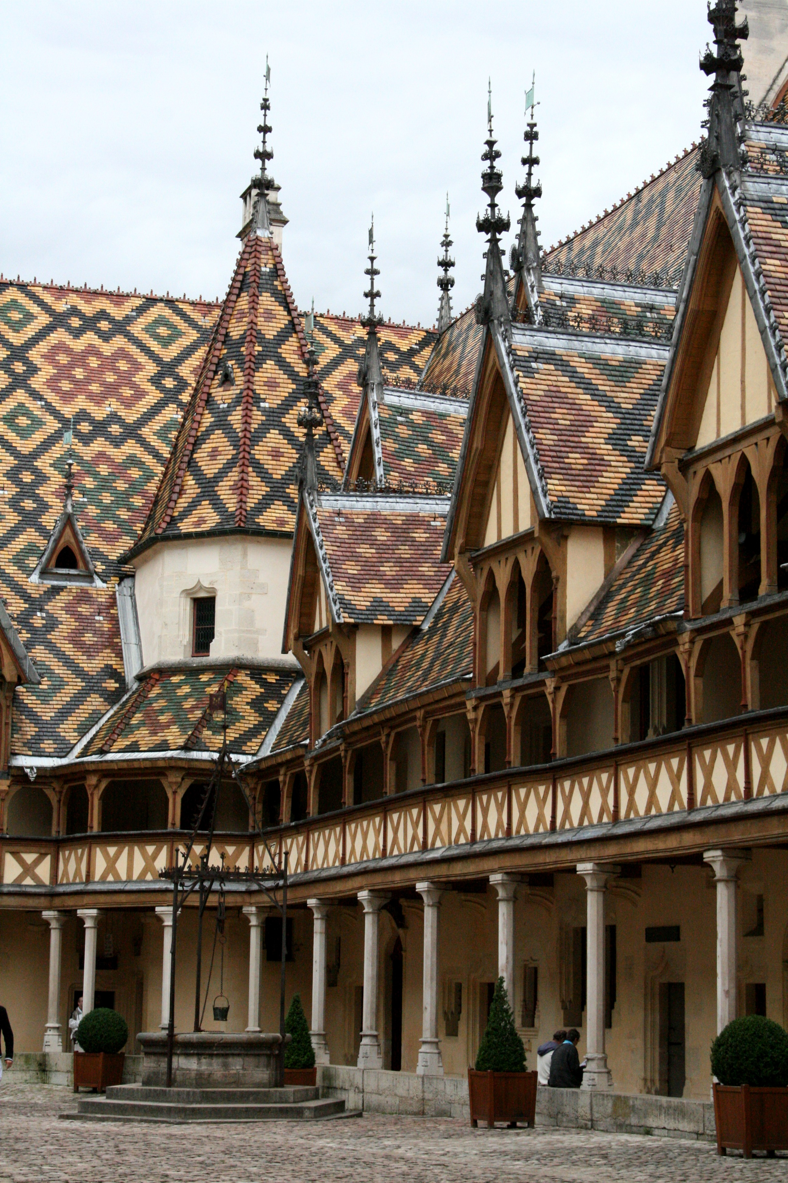 Hôtel-Dieu de Beaune, France